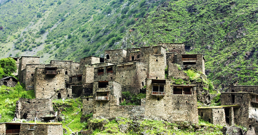 Khevsureti, Georgia — Village Shatili